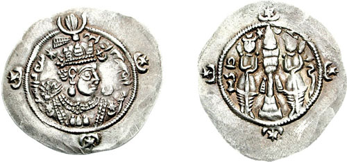 Coin of Aradashir III, Sasanian king